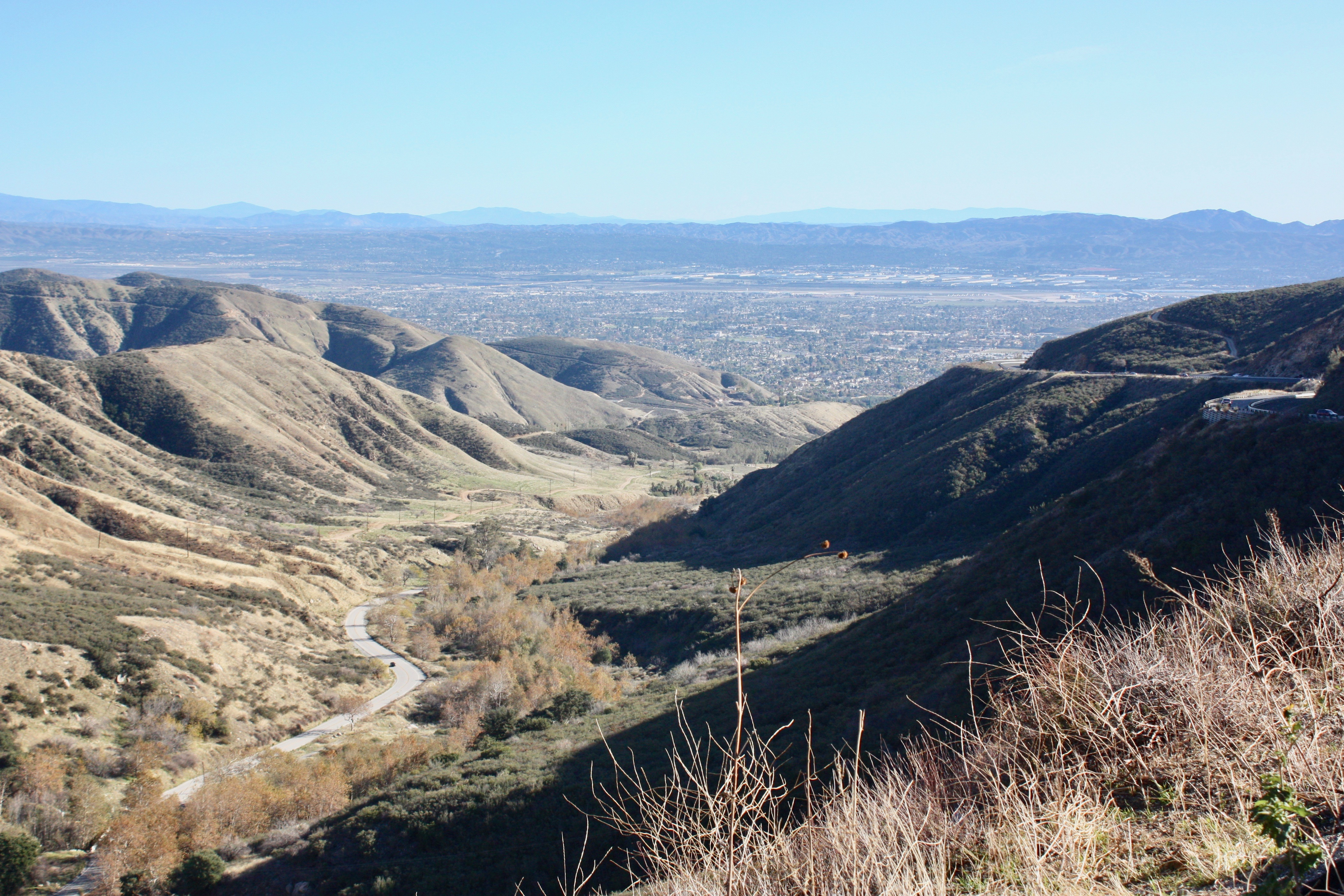 Photo of California Highway 18 approaching the Arrowhead Lake turnoff